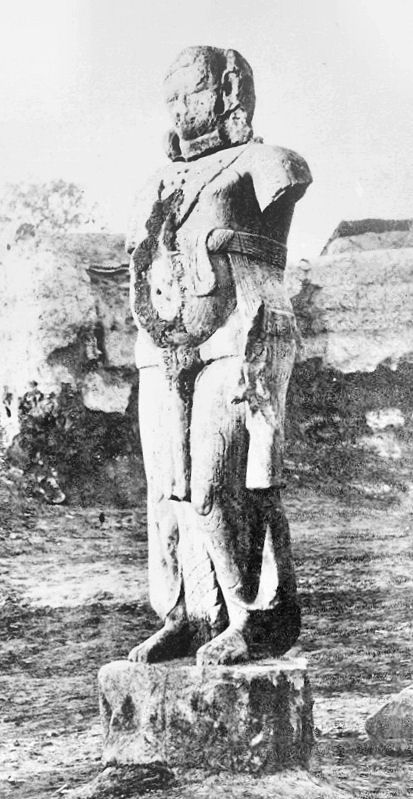 The statue in the Mathura Museum. Yaksha with Ashokan inscription, 3rd century BC. Unearthed in Parkham, Mathura District, India [1].